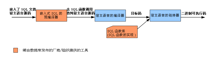 A graphic about how a Embedded SQL promgram works